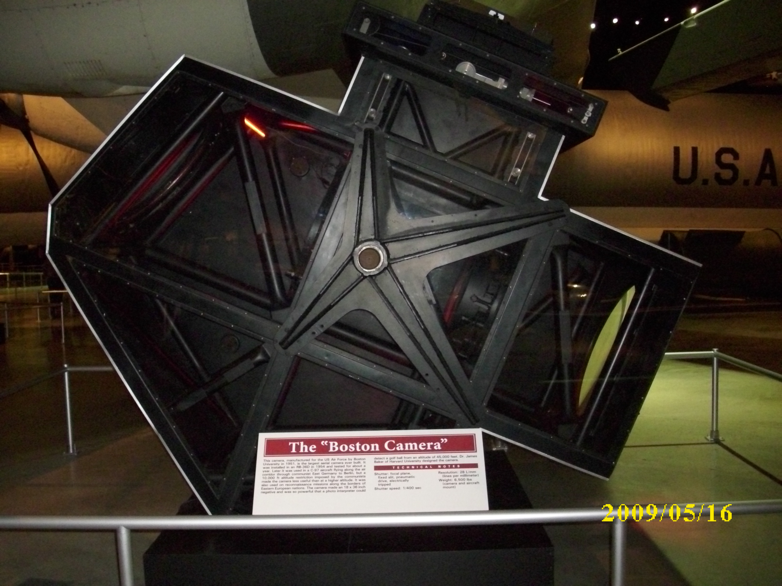 World's largest aerial camera, the "Boston Camera", photographed at the NMUSAF in Dayton OH. Includes descriptive placard - zoom in to read it.